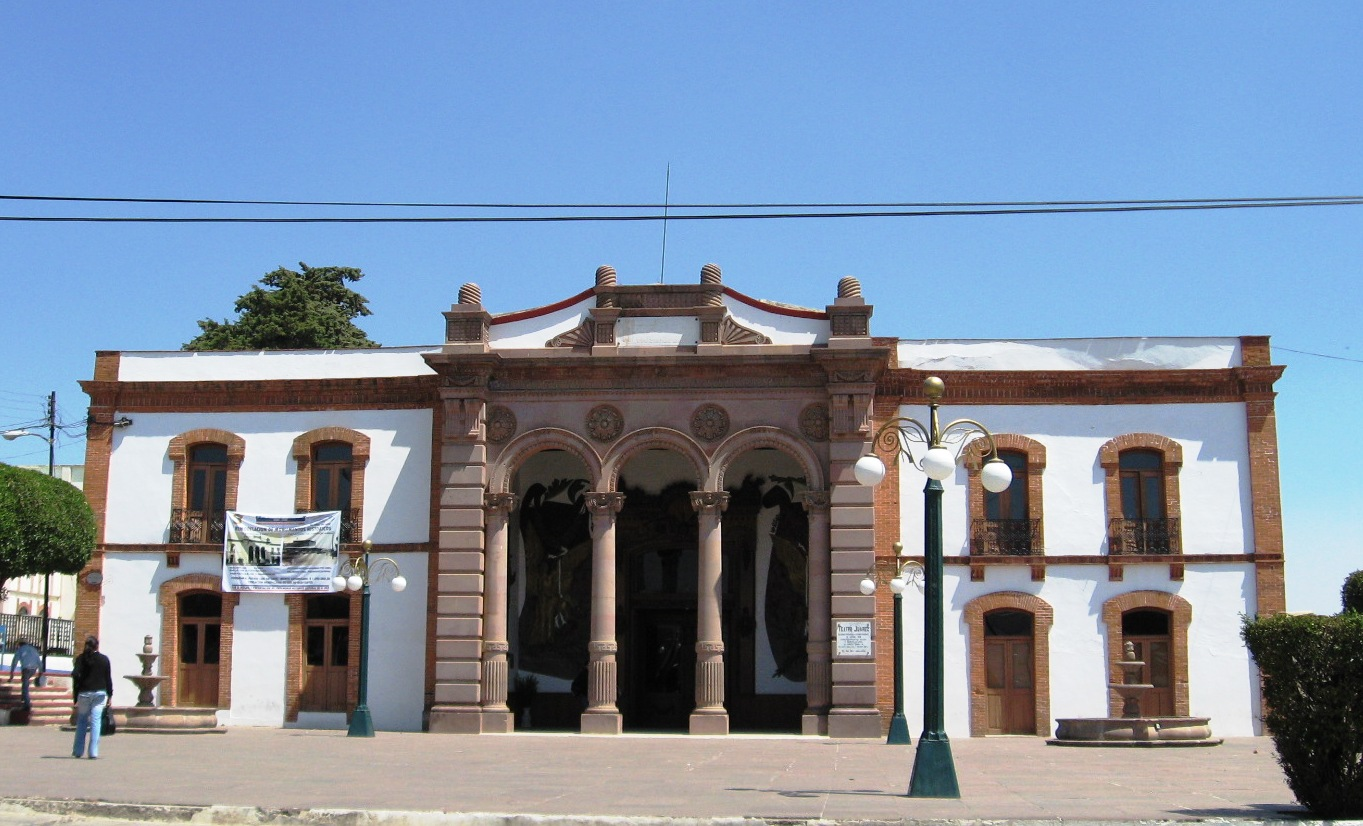 Facade of the Juarez Theatre in El Oro, Mexico State, Mexico